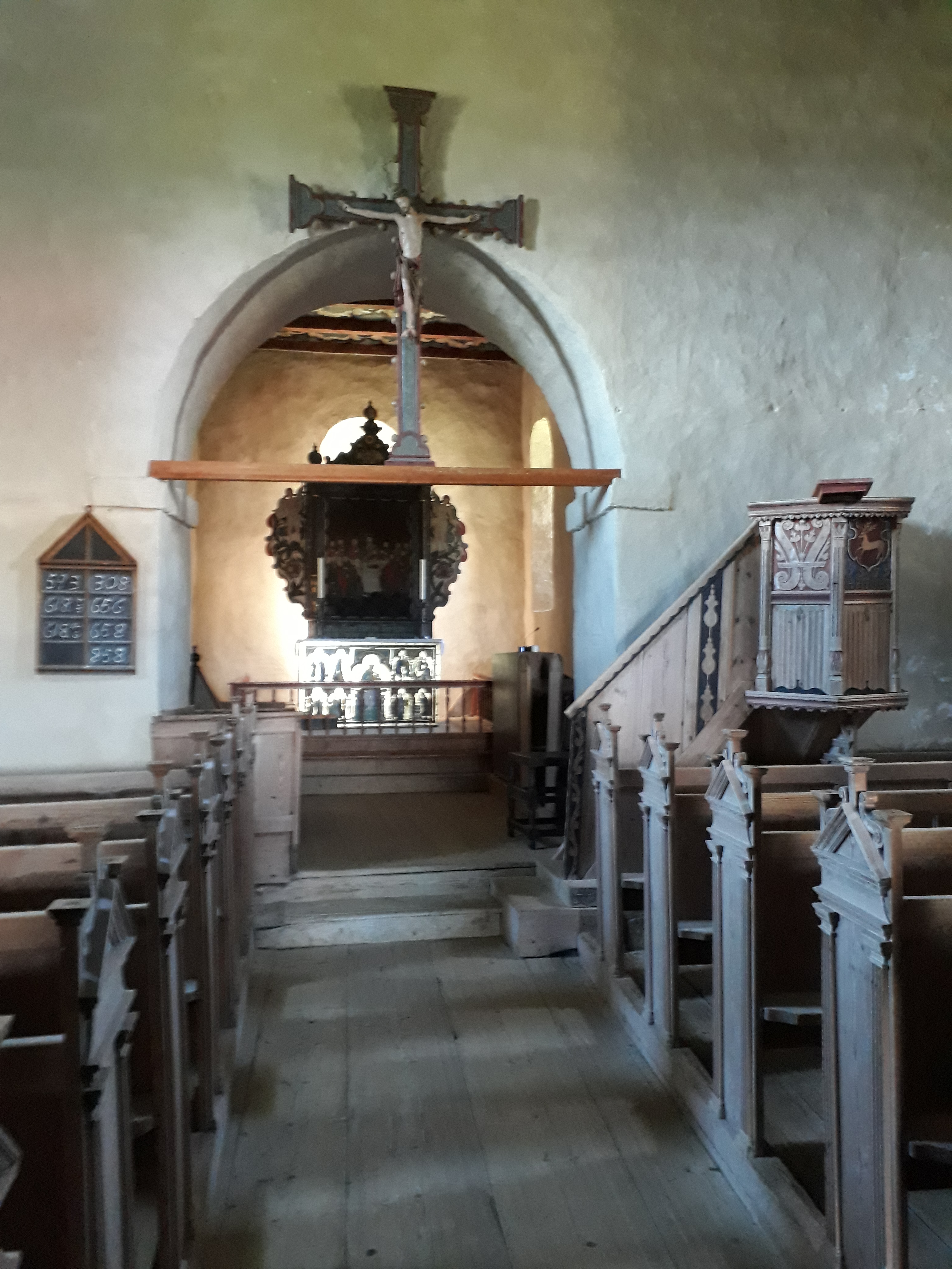 Interior, Tingelstad old church